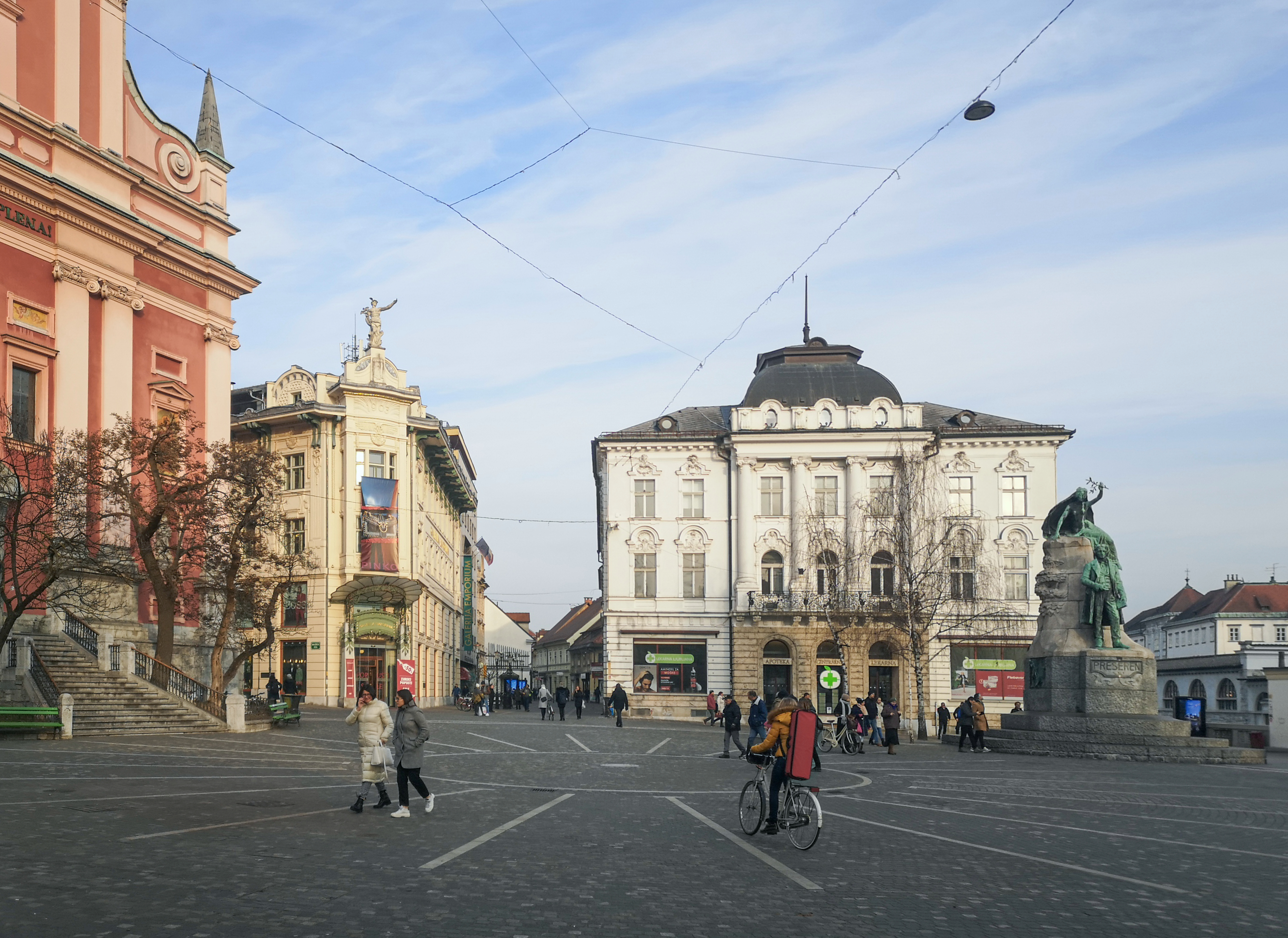 Prešeren Square, view towards the eastern side